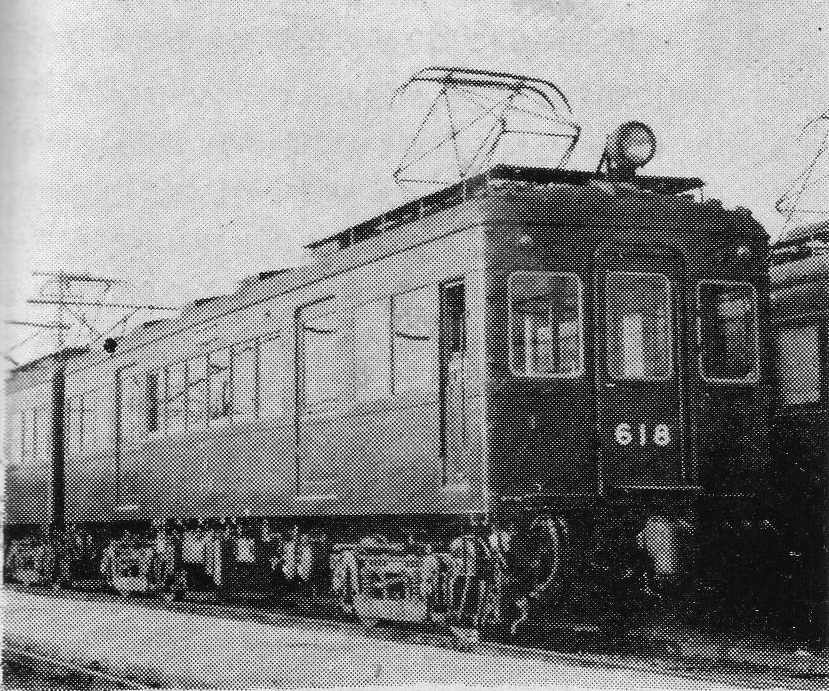 Hankyu Railway #618.